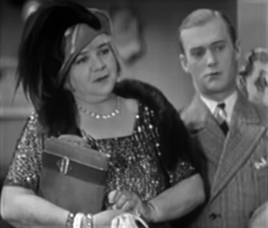 May Boley & Al St. John in The Dance of Life - cropped screenshot